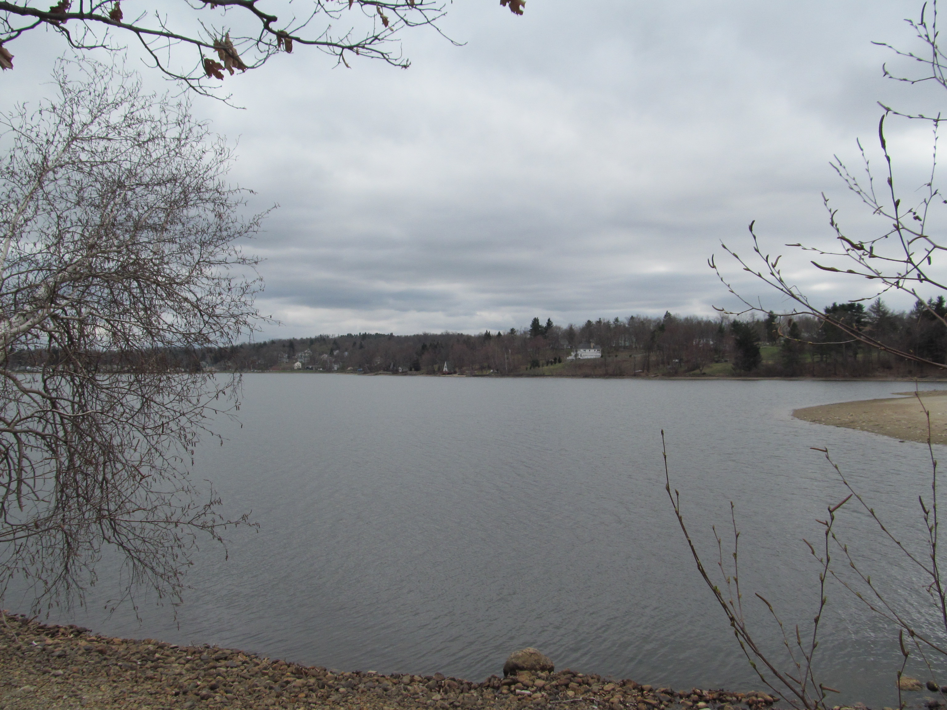 Indian Lake, Worcester Massachusetts